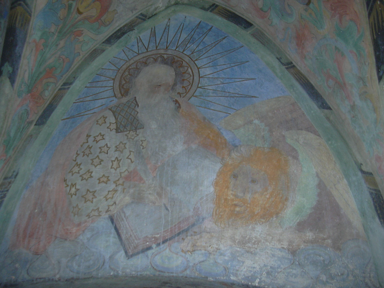 Marksburg/Rhine Valley, fresco of St. Mark with lion, Germany